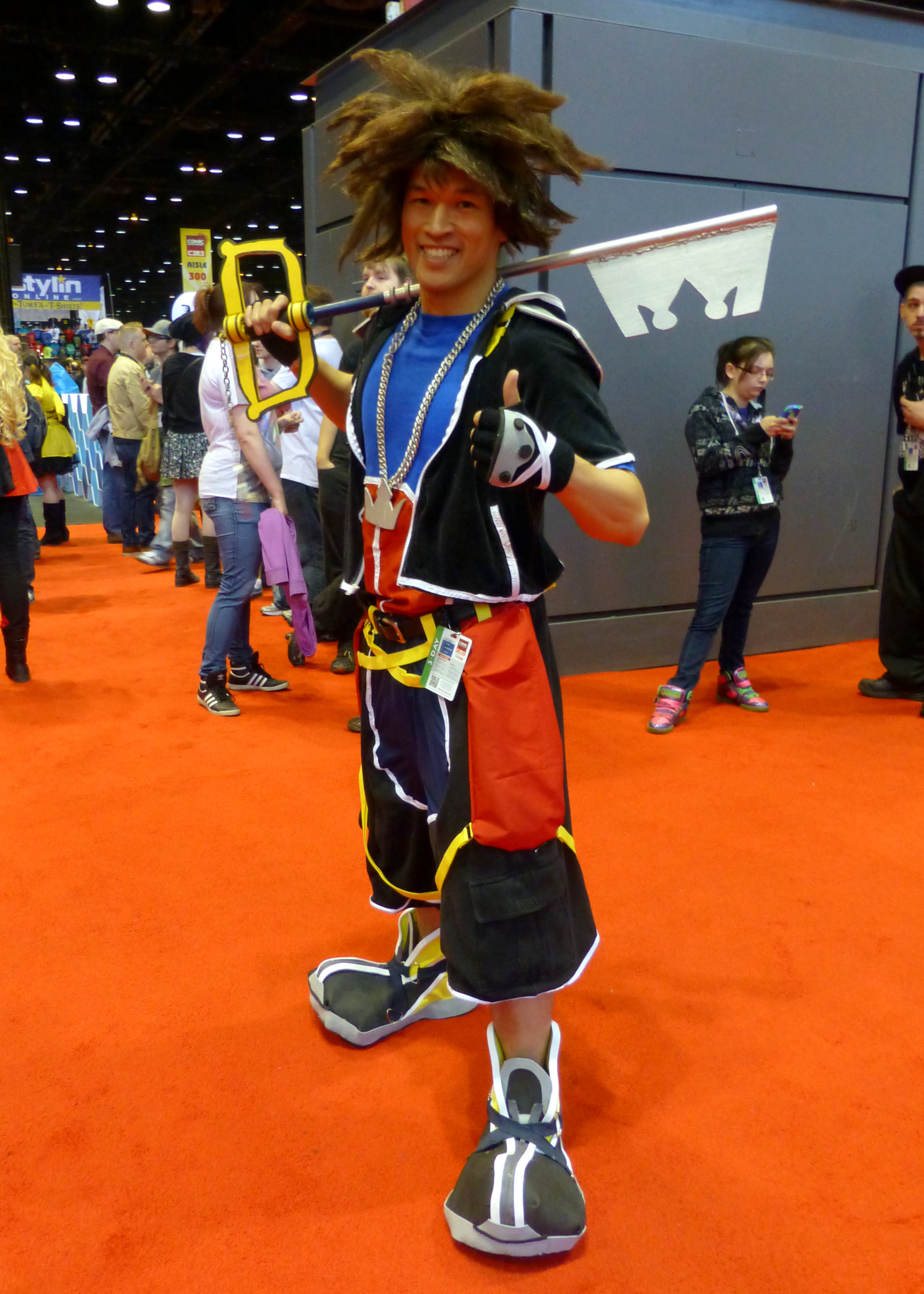 Sora from Kingdom Hearts Cosplay at Chicago Comic & Entertainment Expo (C2E2) 2014.